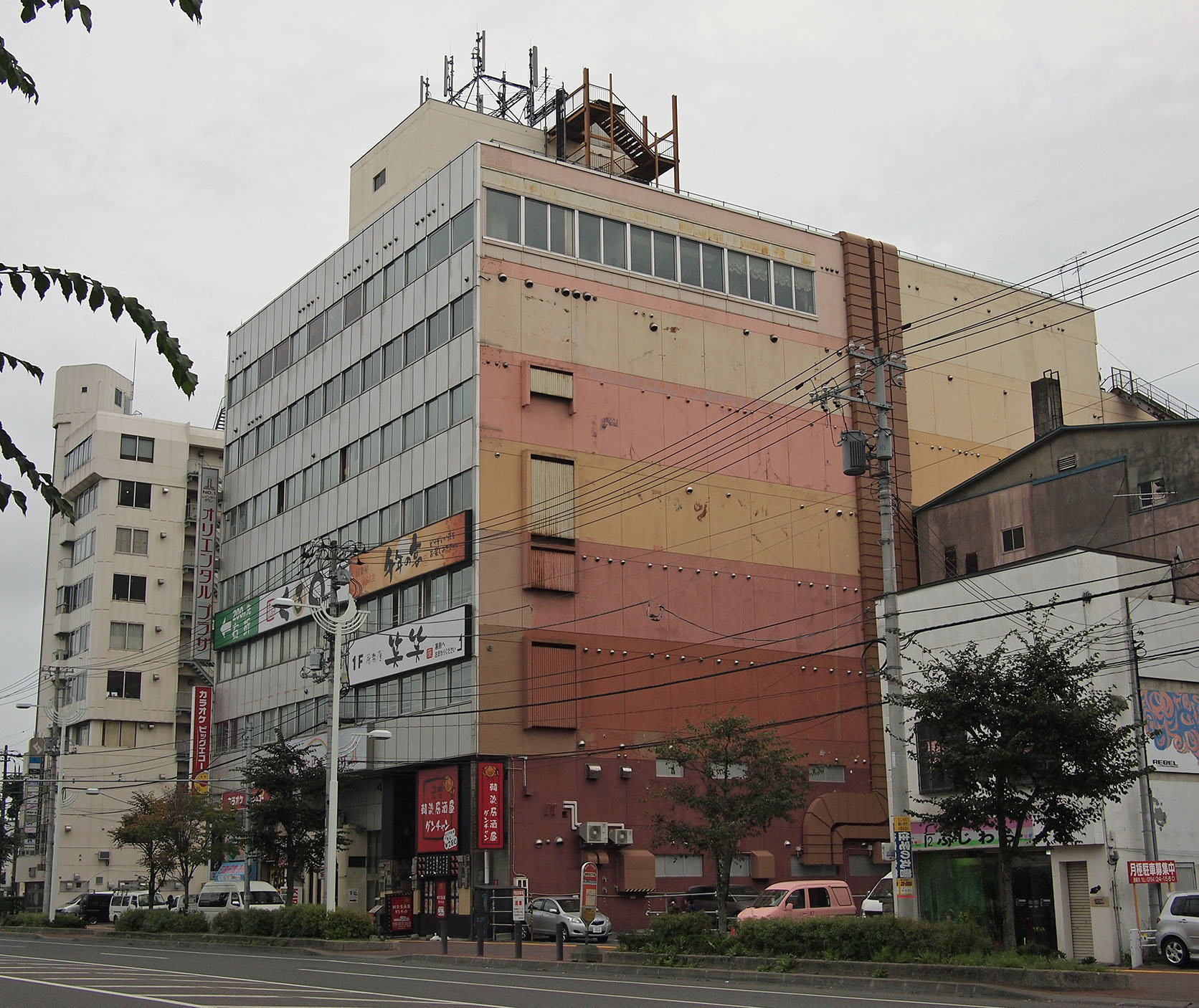 Oriental Plaza, Kushiro, Hokkaido, Japan